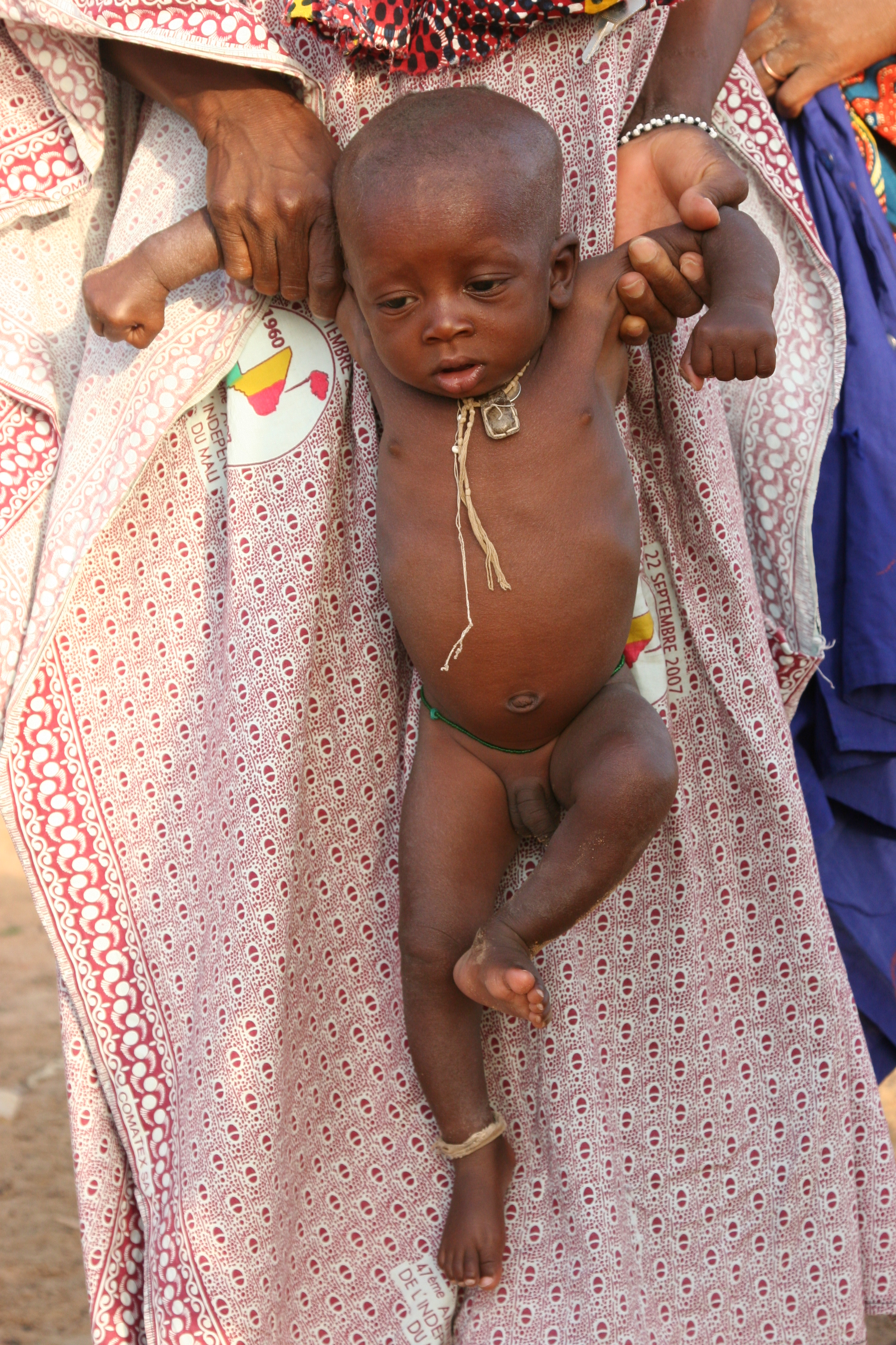 Young boy in the hands of his mother. Mali, June 2008